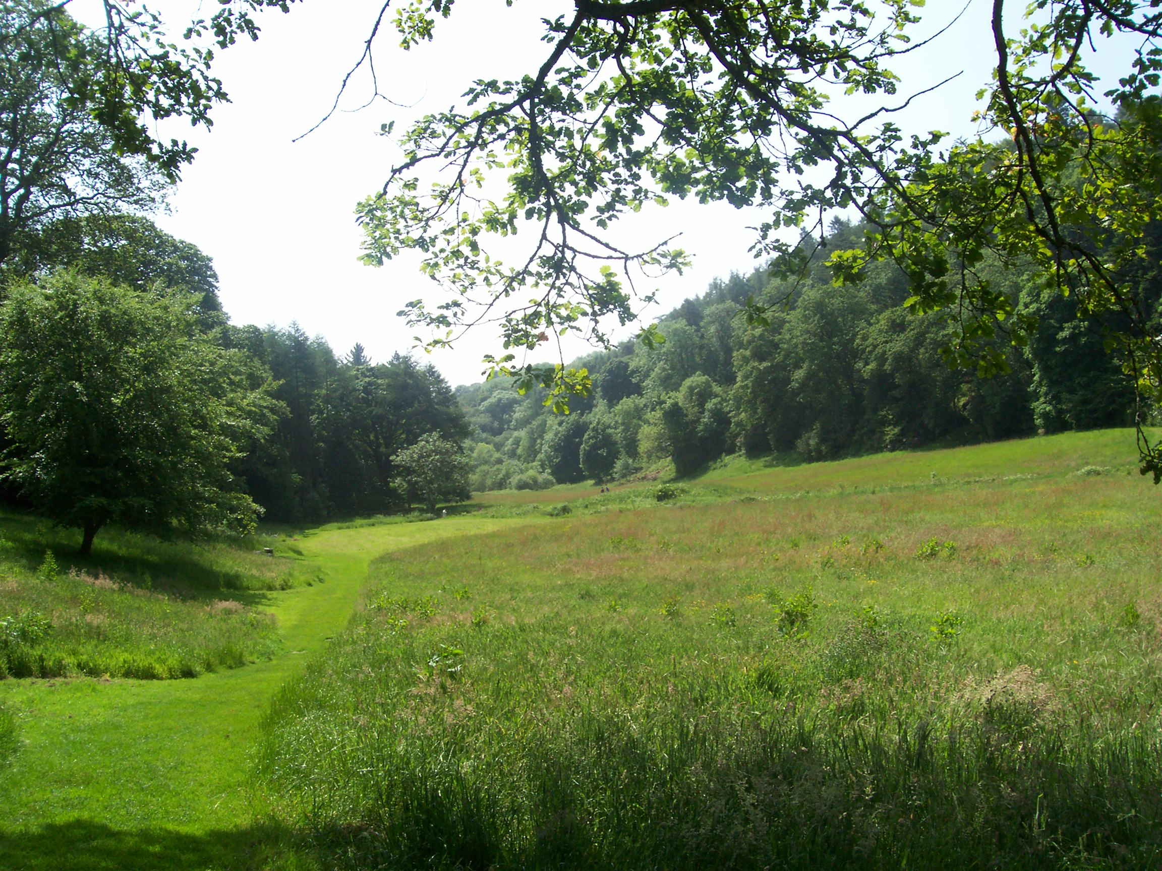 Meadow at Colby Woodland Garden near Amroth Pembrokeshire.